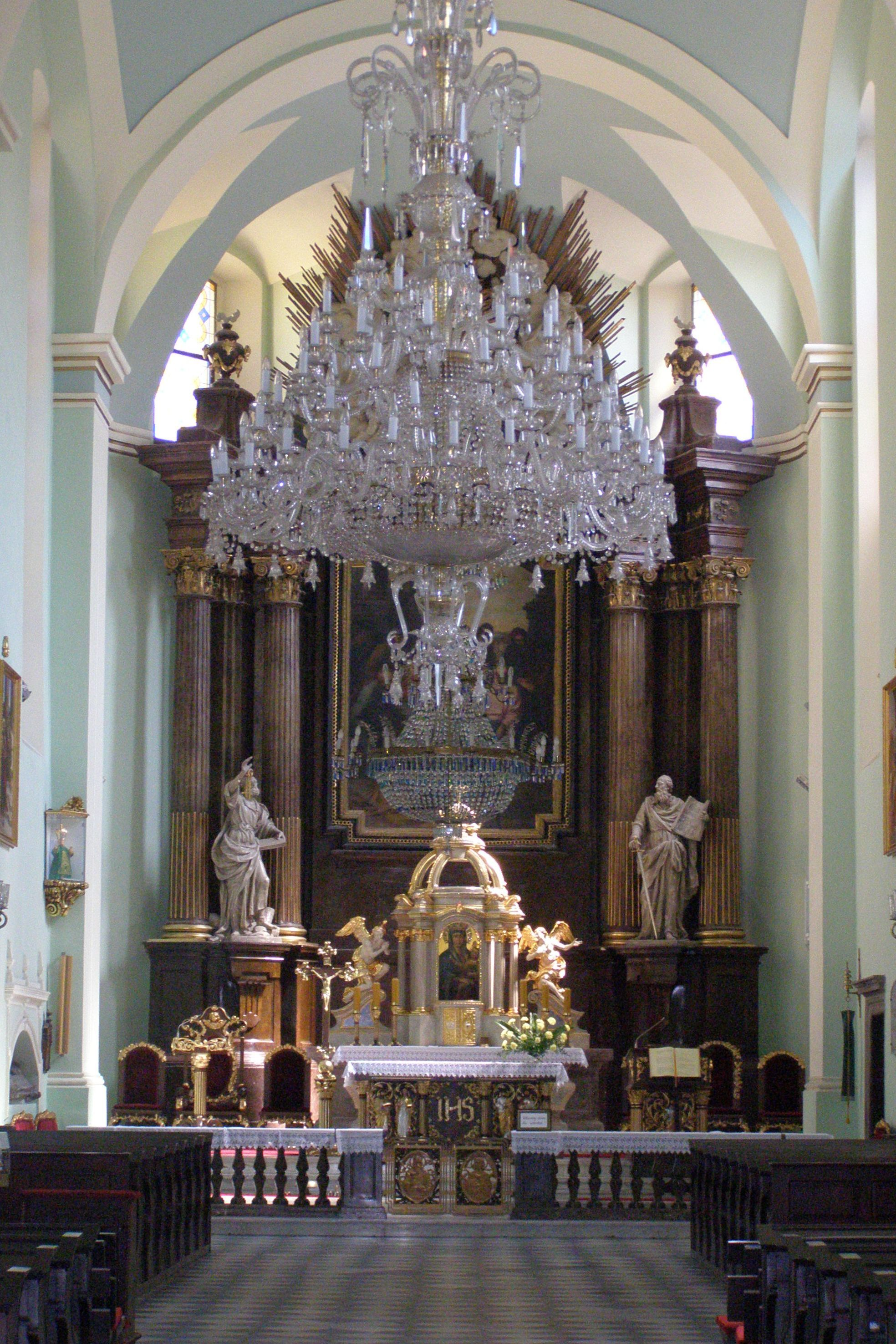 Church of Saint Mary Magdalene in Cieszyn.